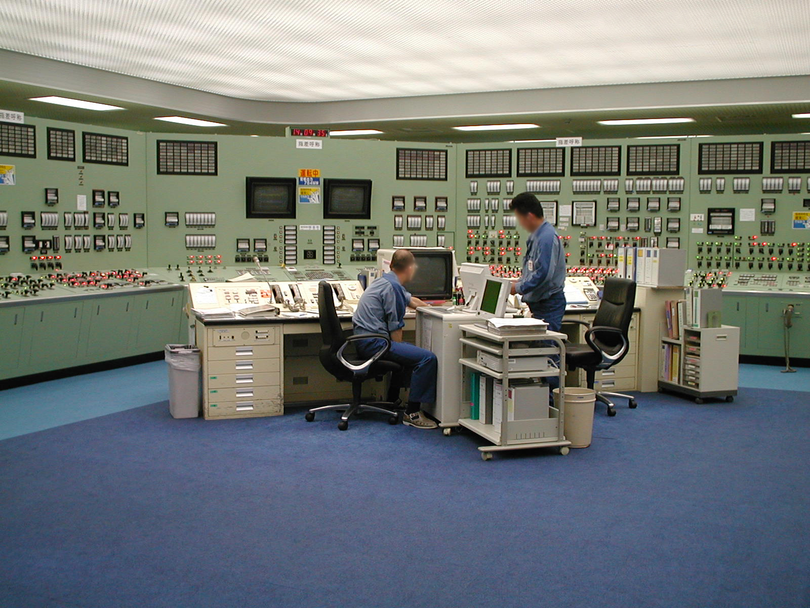 Reactor control room at Fukushima 1 nuclear power plant in Japan This photo was taken on June 23, 1999 during a tour of the plant.